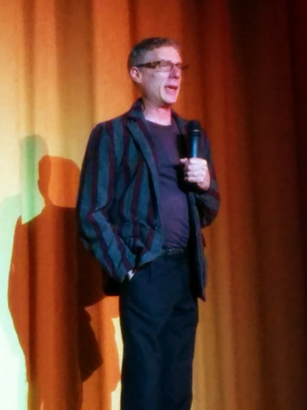 Jeffrey Friedman presenting the 2015 Frameline Award to Jeffrey Schwarz at the Castro Theatre in San Francisco, California, United States